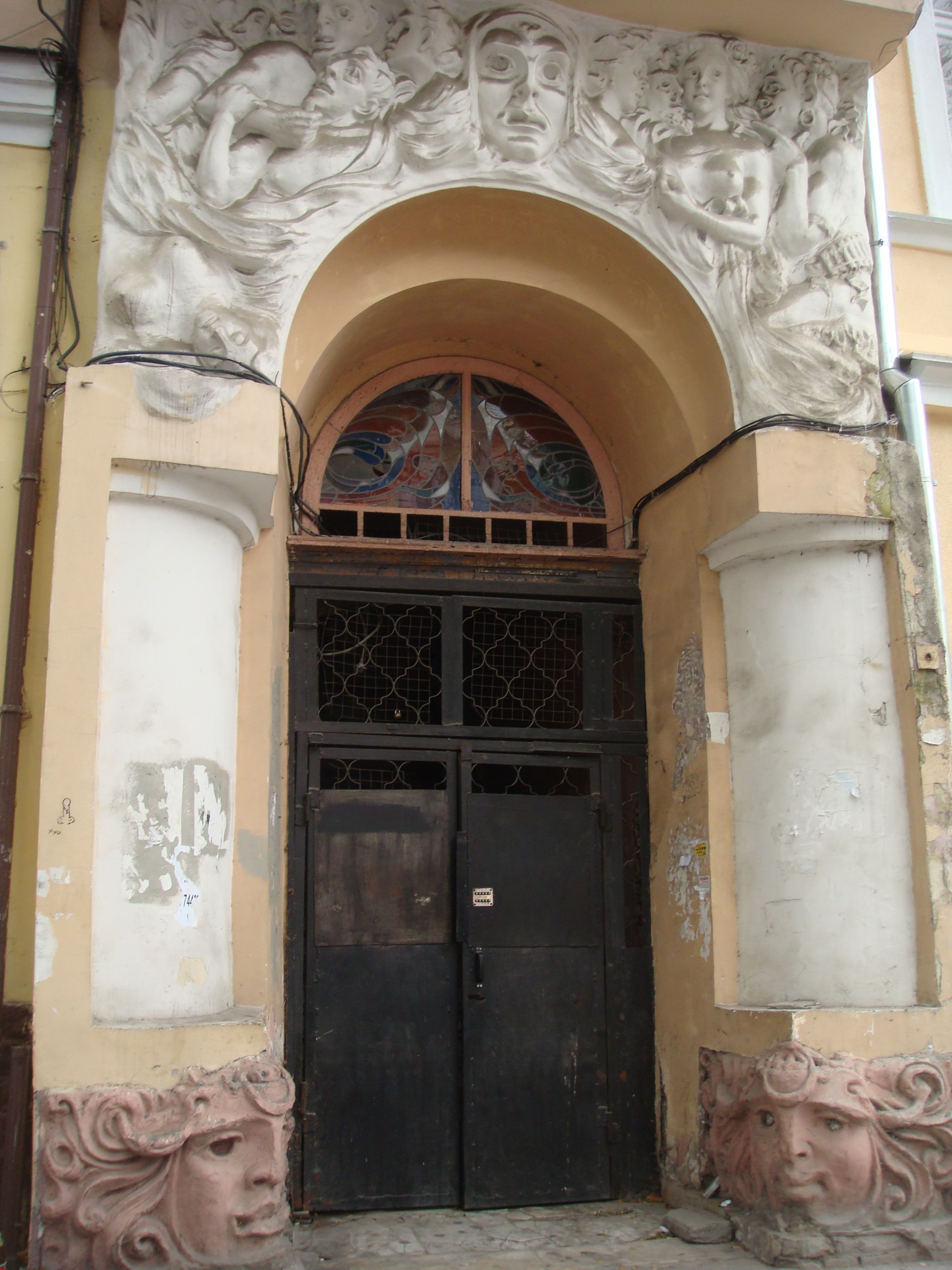 Odessa. House of Isakovich (22 Deribasovakaya street). Entrance from Havannaya street